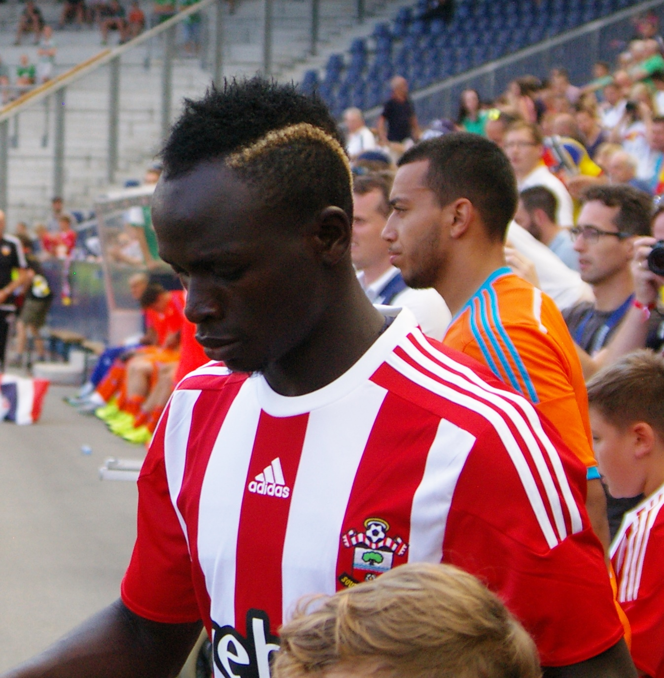 tournament with SV Werder Bremen, FC Southampton, Red Bull Salzburg and Valencia CF preseason friendly matches